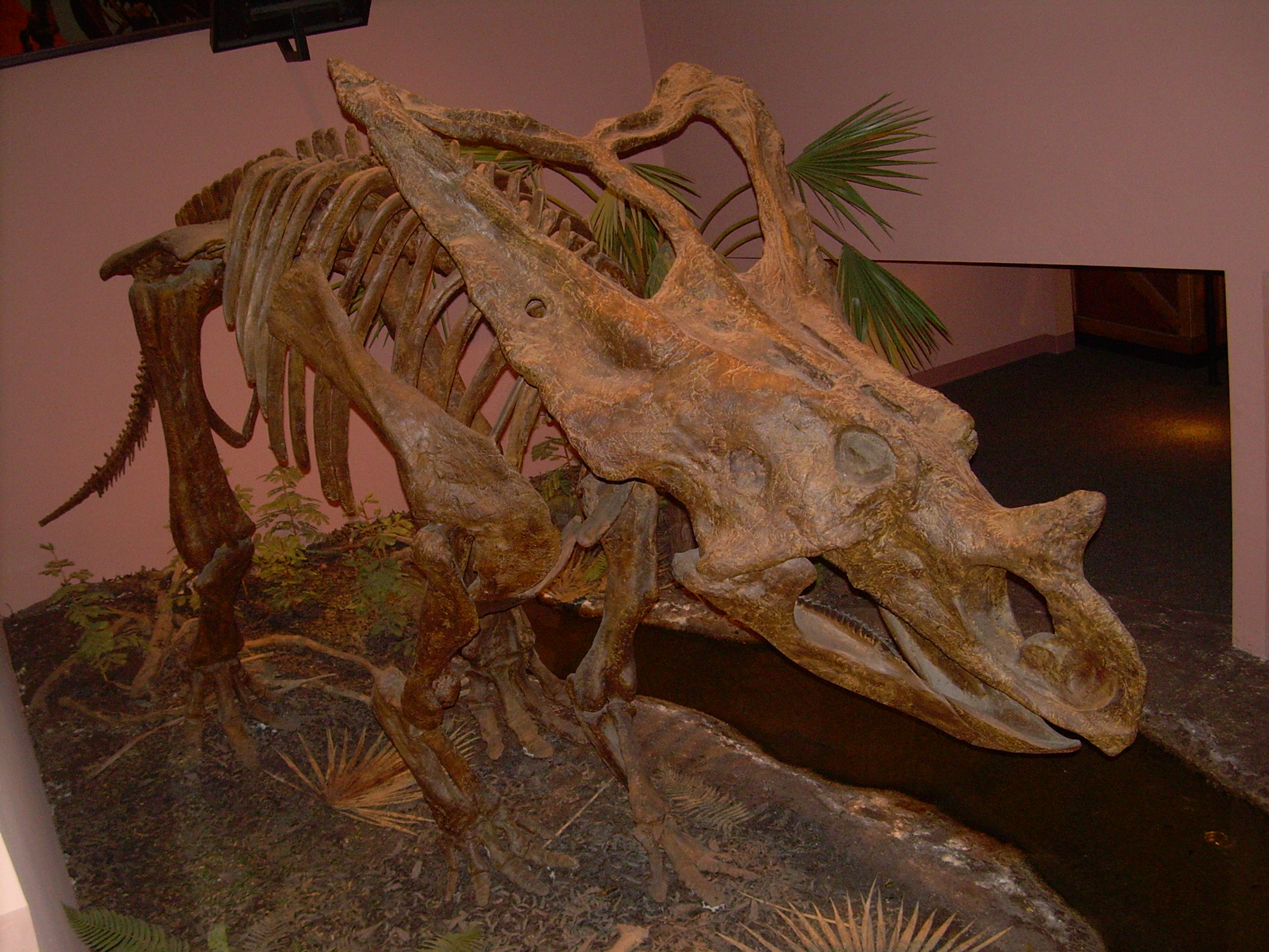 Photograph of a fossil cast of a Chasmosaurus skeleton taken at the North American Museum of Ancient Life.